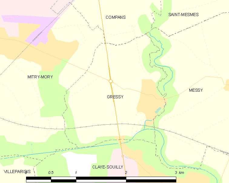 Map of French municipality Gressy